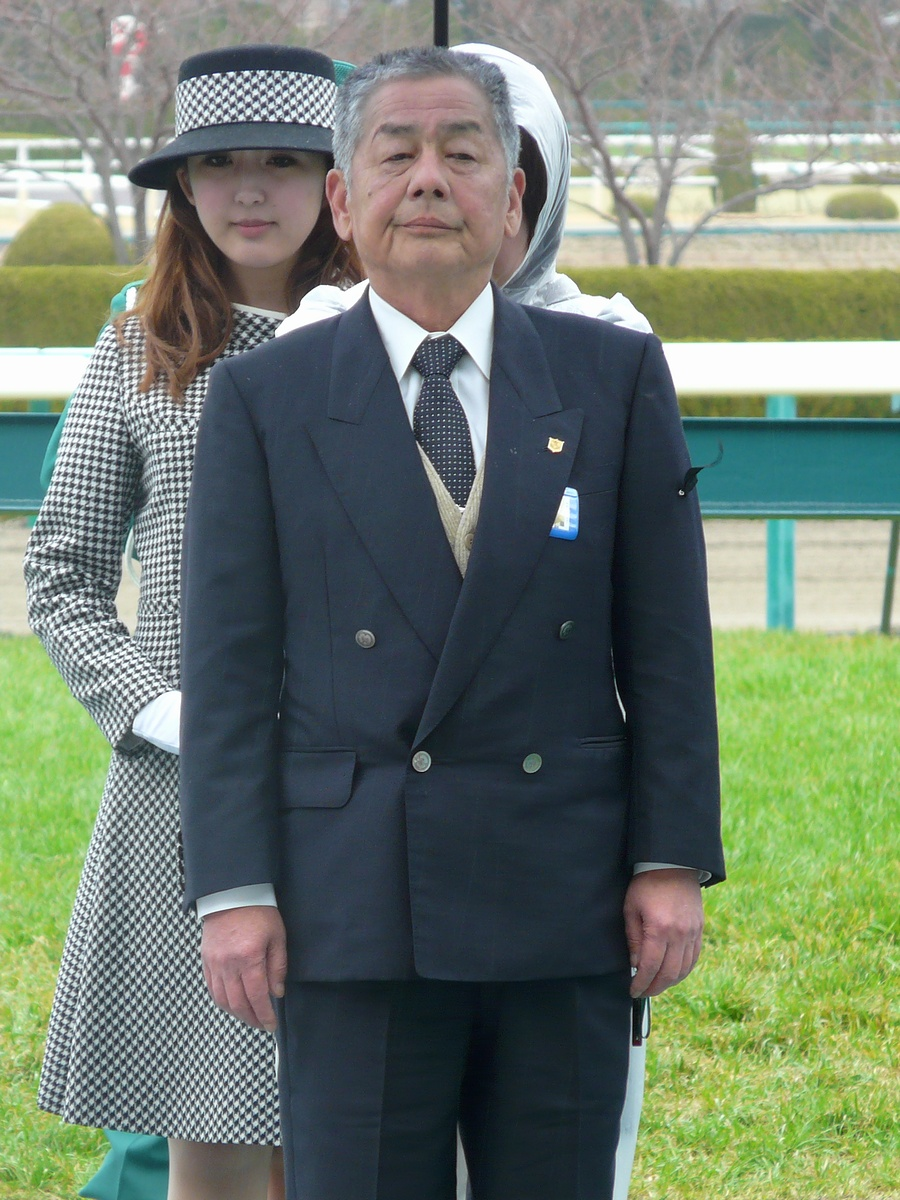 Nobuharu-Fukushima20110320